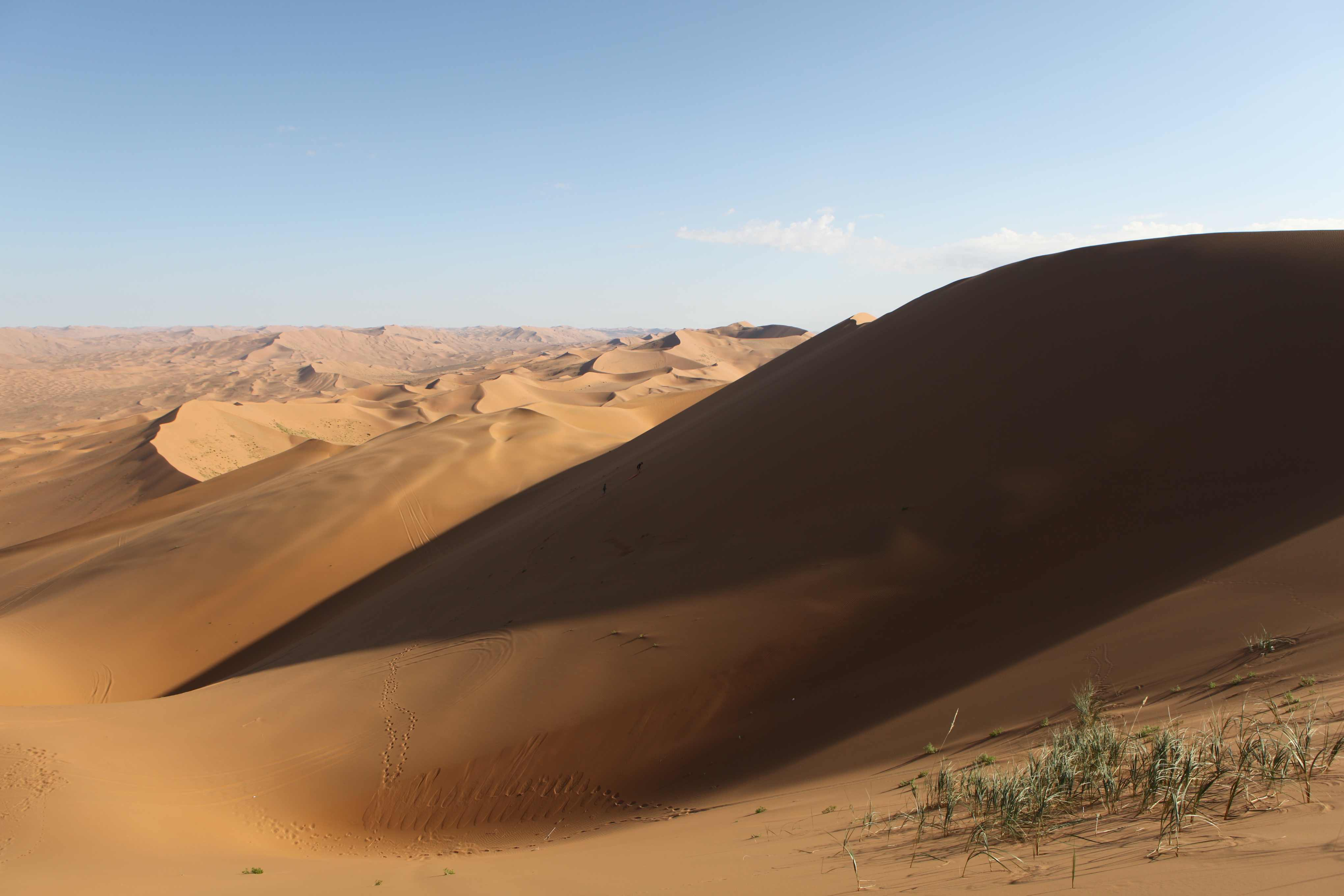 A view from on of the many smaller dunes in the Badain Jaran Desert